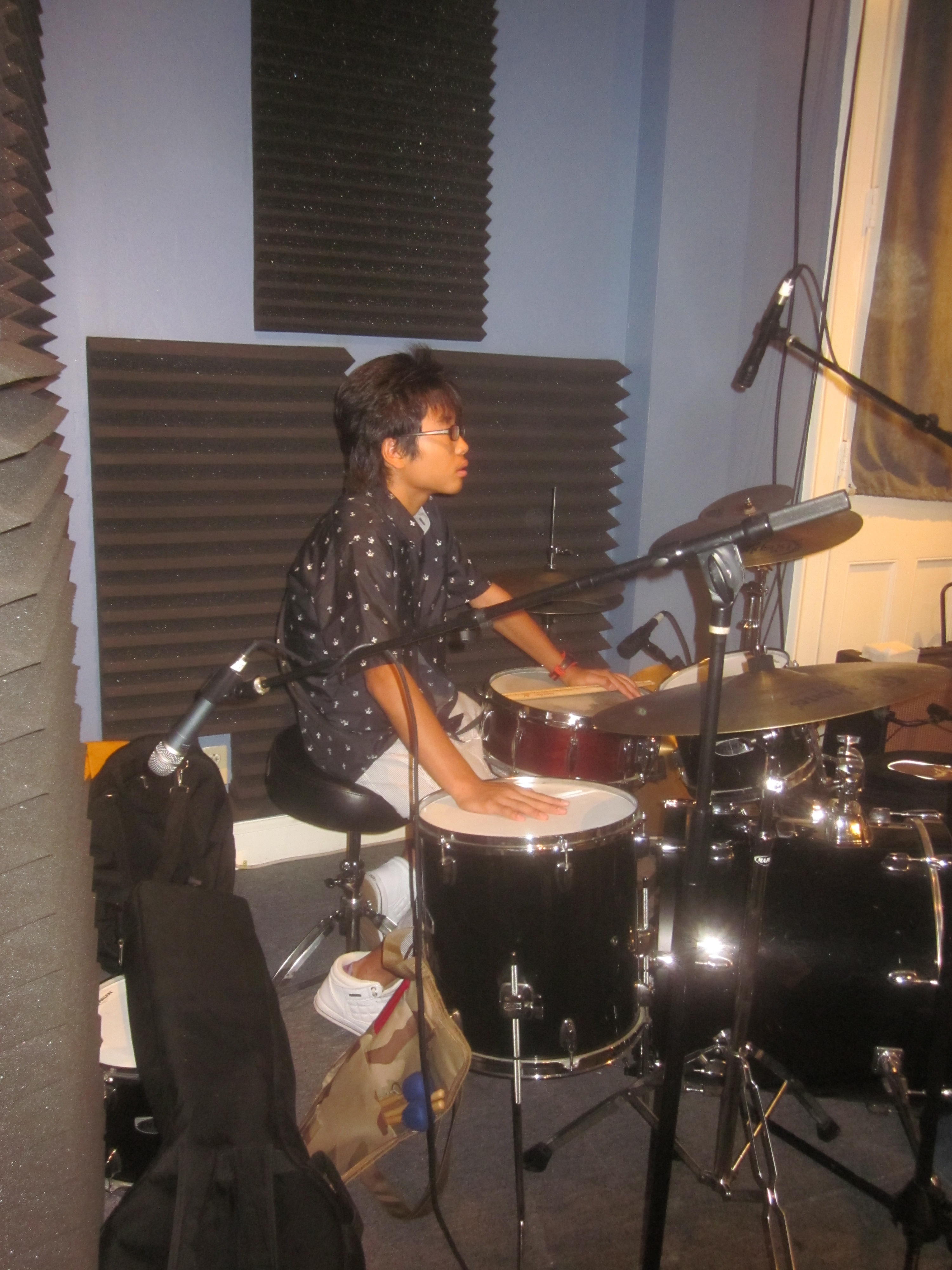 Tiger Onitsuka Quartet plays live at Radio WWOZ, New Orleans